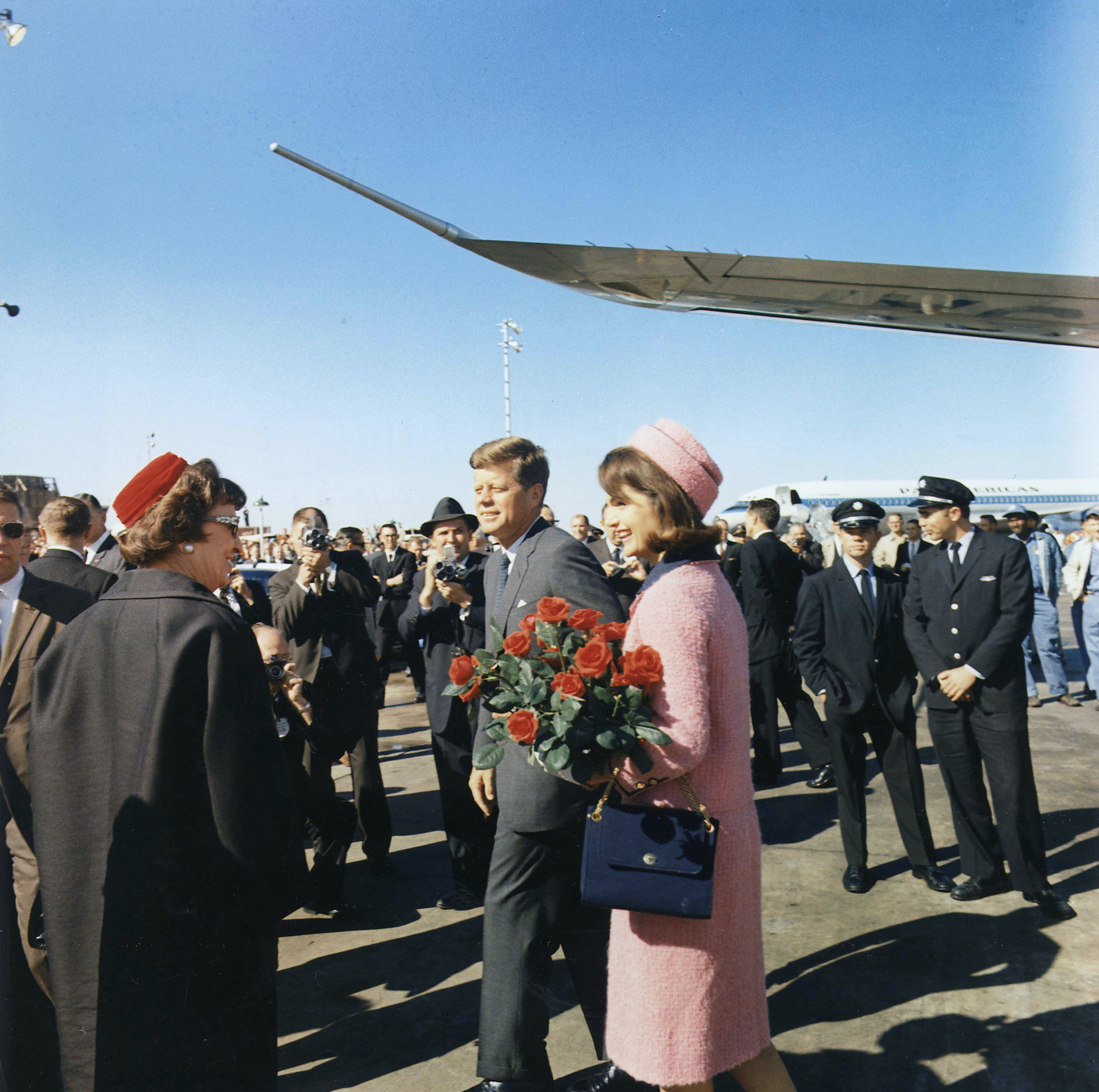 President John F. Kennedy and Jacqueline Kennedy arrive at Love Field, Dallas, Texas. Kennedy was assassinated later in the day.